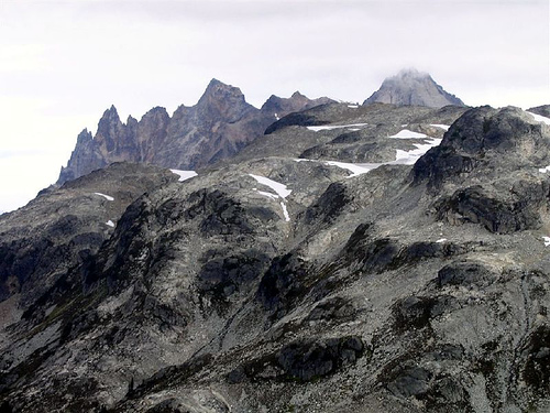 Pyroclastic Peak on left and Mount Cayley on right with its summit hidden in the clouds